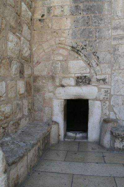 The Door of Humility leads into the Church of the Nativity (Basilica of the Nativitiy).